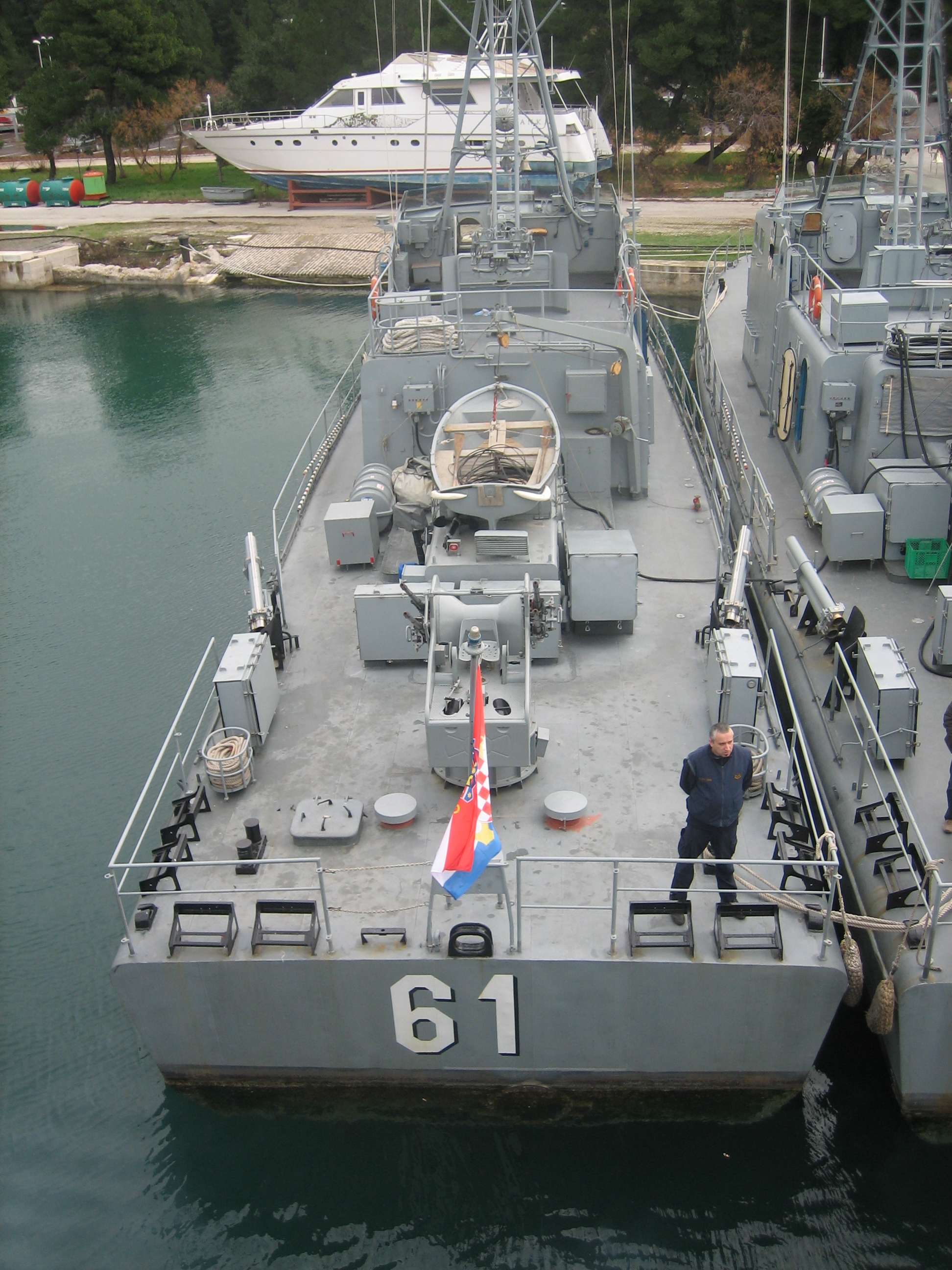 Croatian Navy OB-61 Novigrad